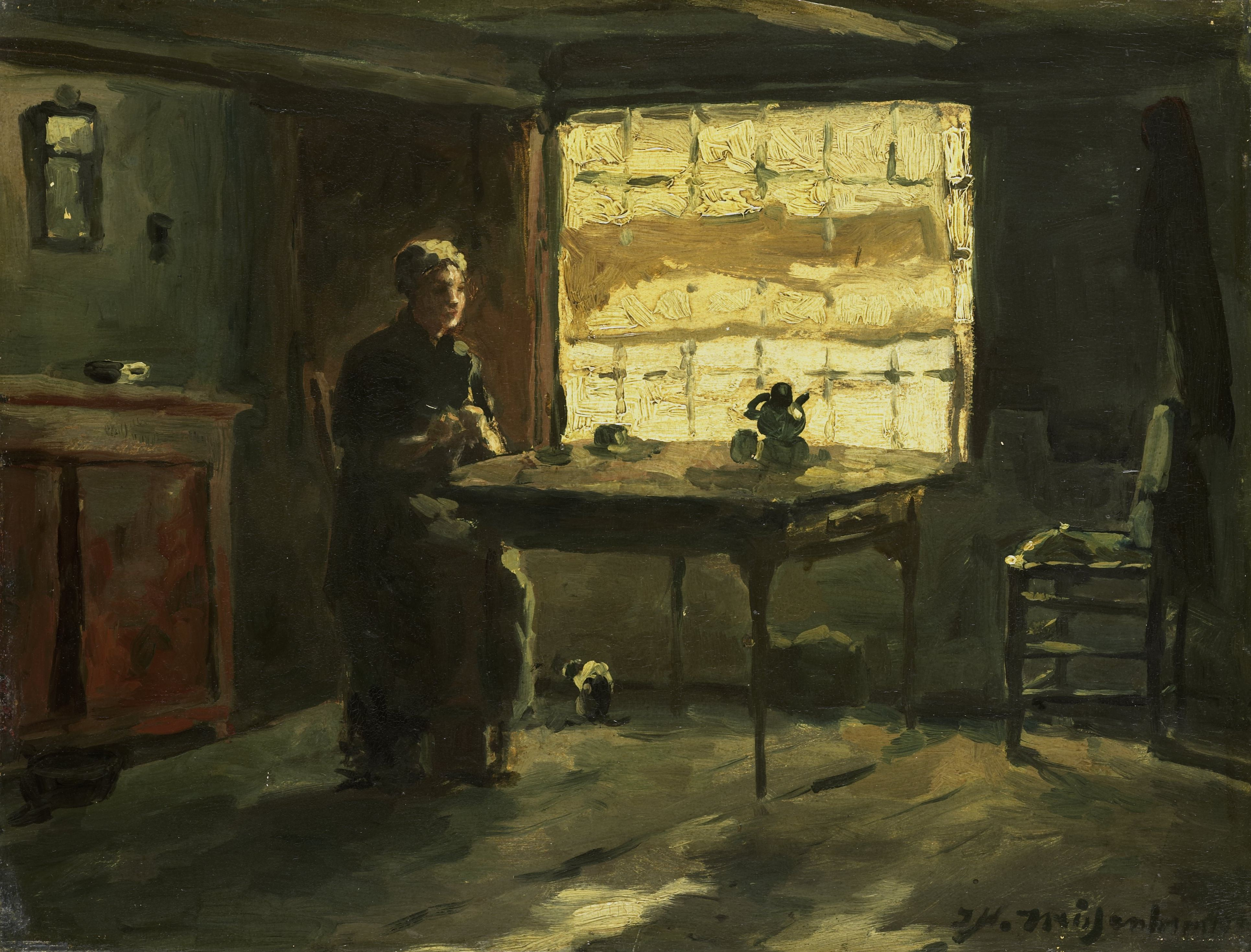 A farmhouse interior. A woman sits by the window at the table knitting. There is a teapot on the table and a cat below.